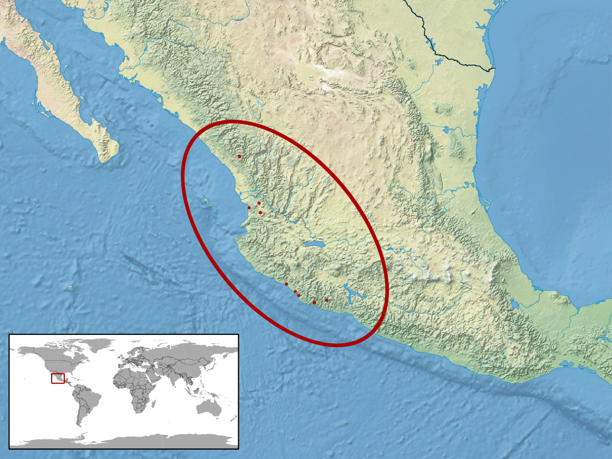 geographic distribution of Plestiodon parvulus